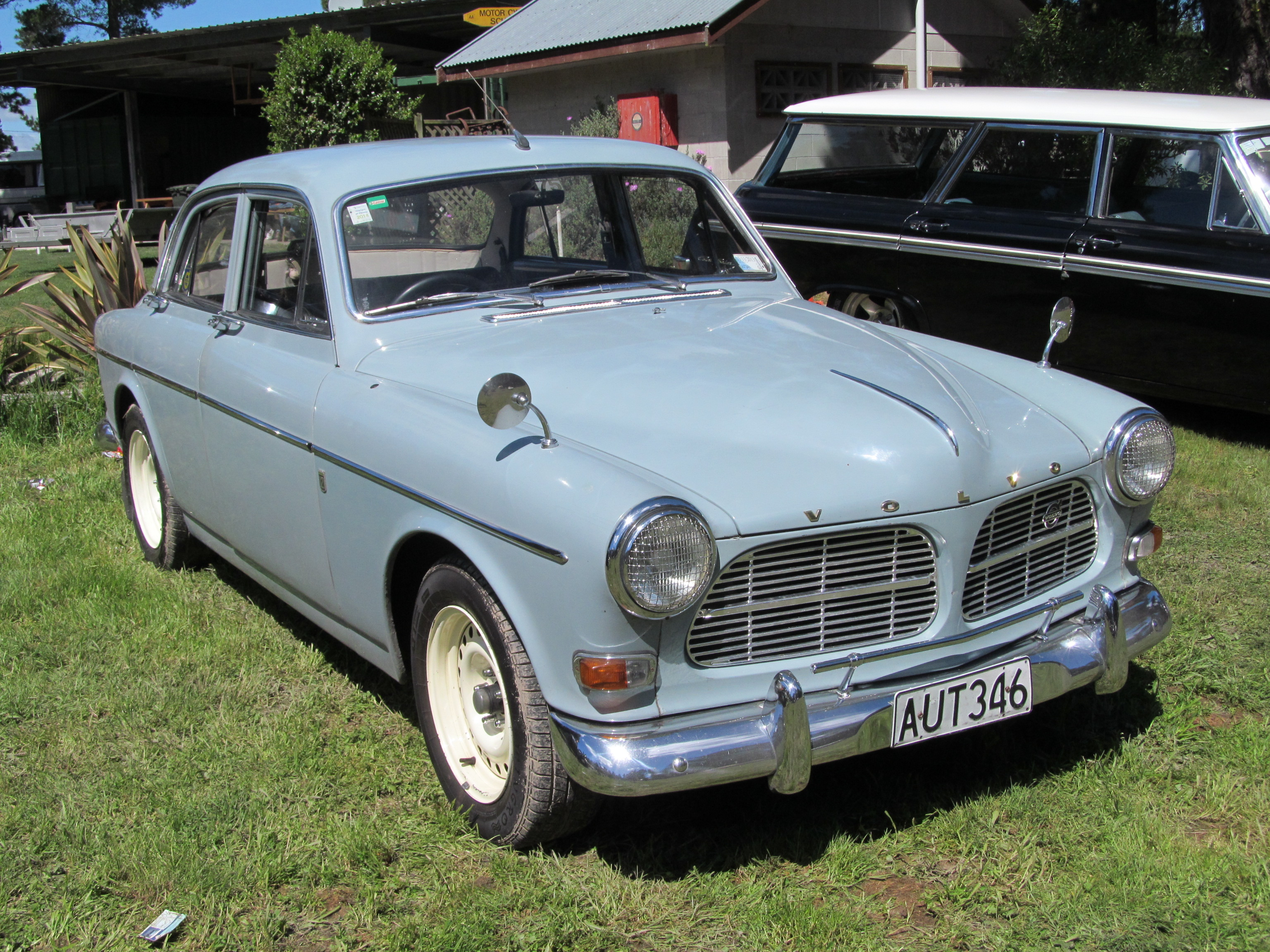 I've spotted this one at a show before, but it's such a nice example that I thought it deserved another picture! It was imported from the UK in 2002.